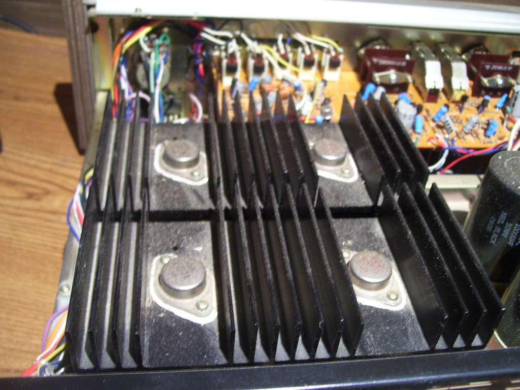 Nikko TRM-800 stereo audio amplifier's power transistors mounted on heatsinks